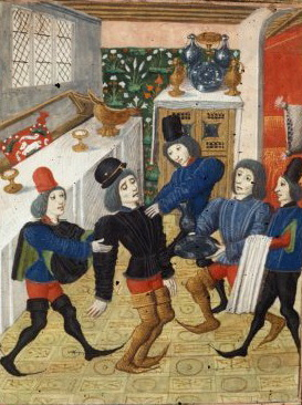 Death of the Count of Foix (Gaston III Phoebus). (British Library, Harley 4379 f. 126)